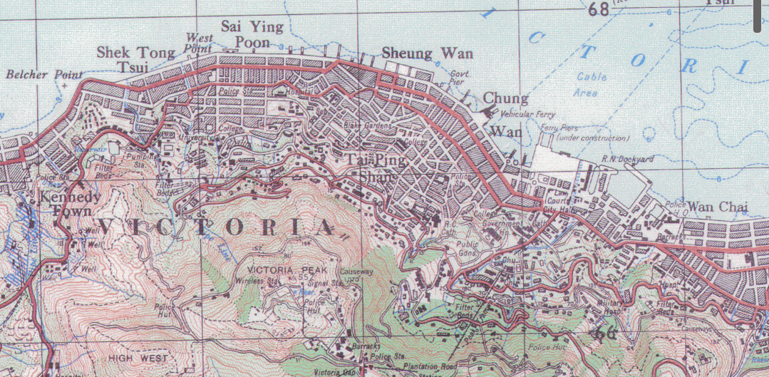 Tai Ping Shan labelled on a 1957 map of Hong Kong Island